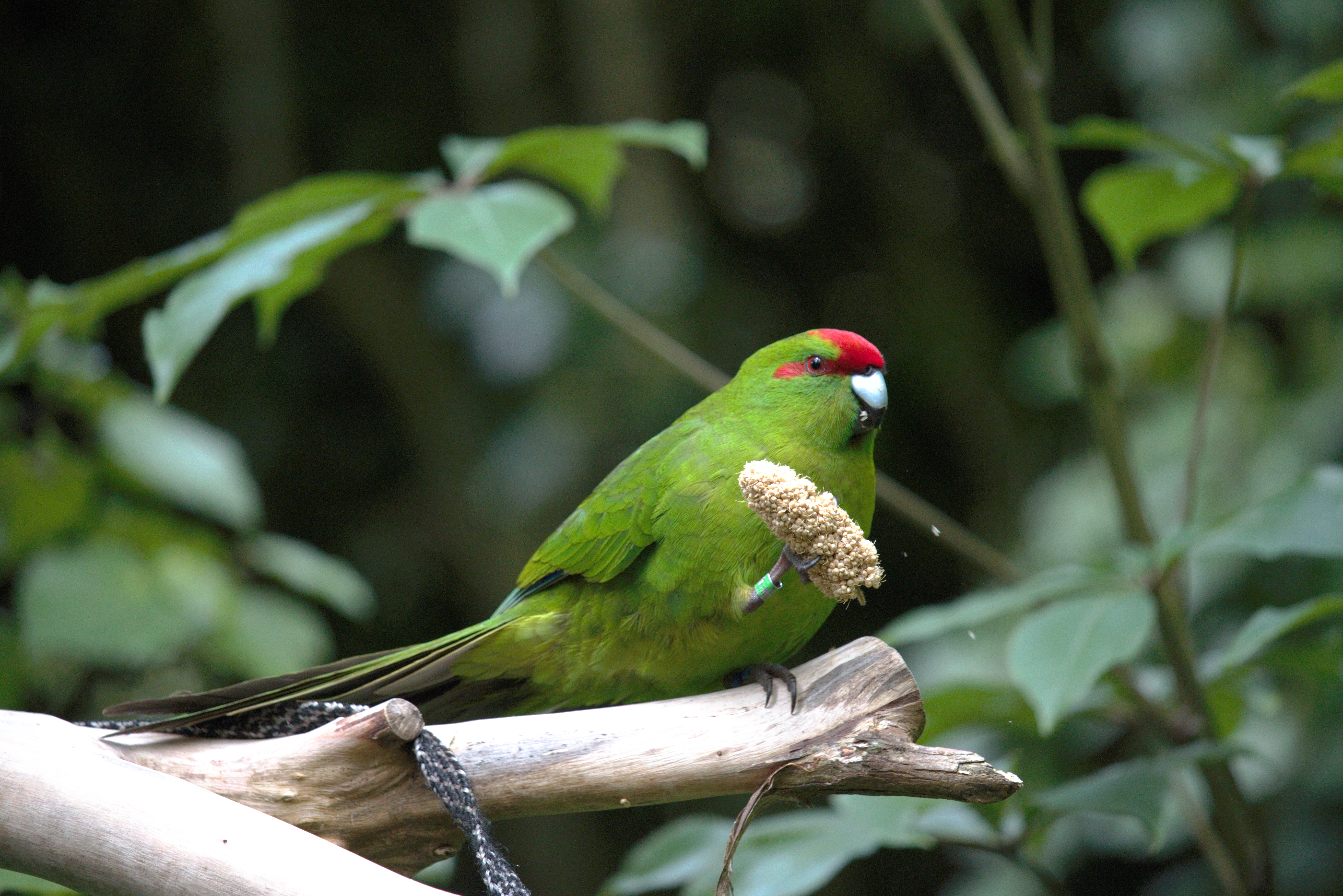 This kakariki is on a feeding perch